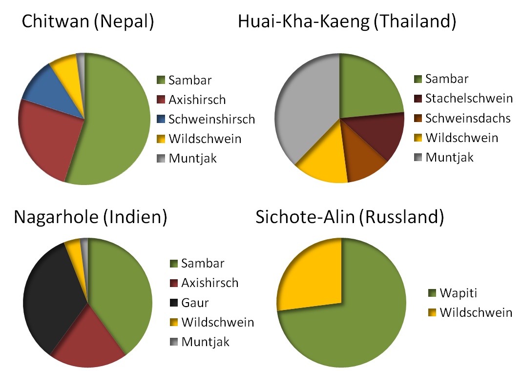 Prey composition (biomass) of tigers (Panthera tigris) in different reserves